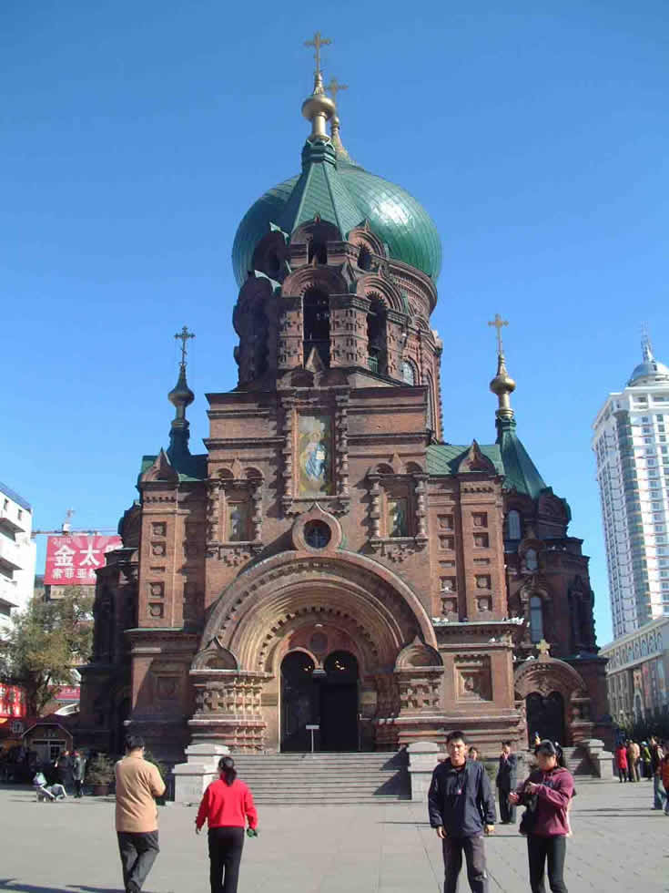 An Orthodox former church in the main square of Heilongjiang province (bordering Siberia)